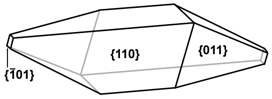 Typical shape of a paulkellerite crystal